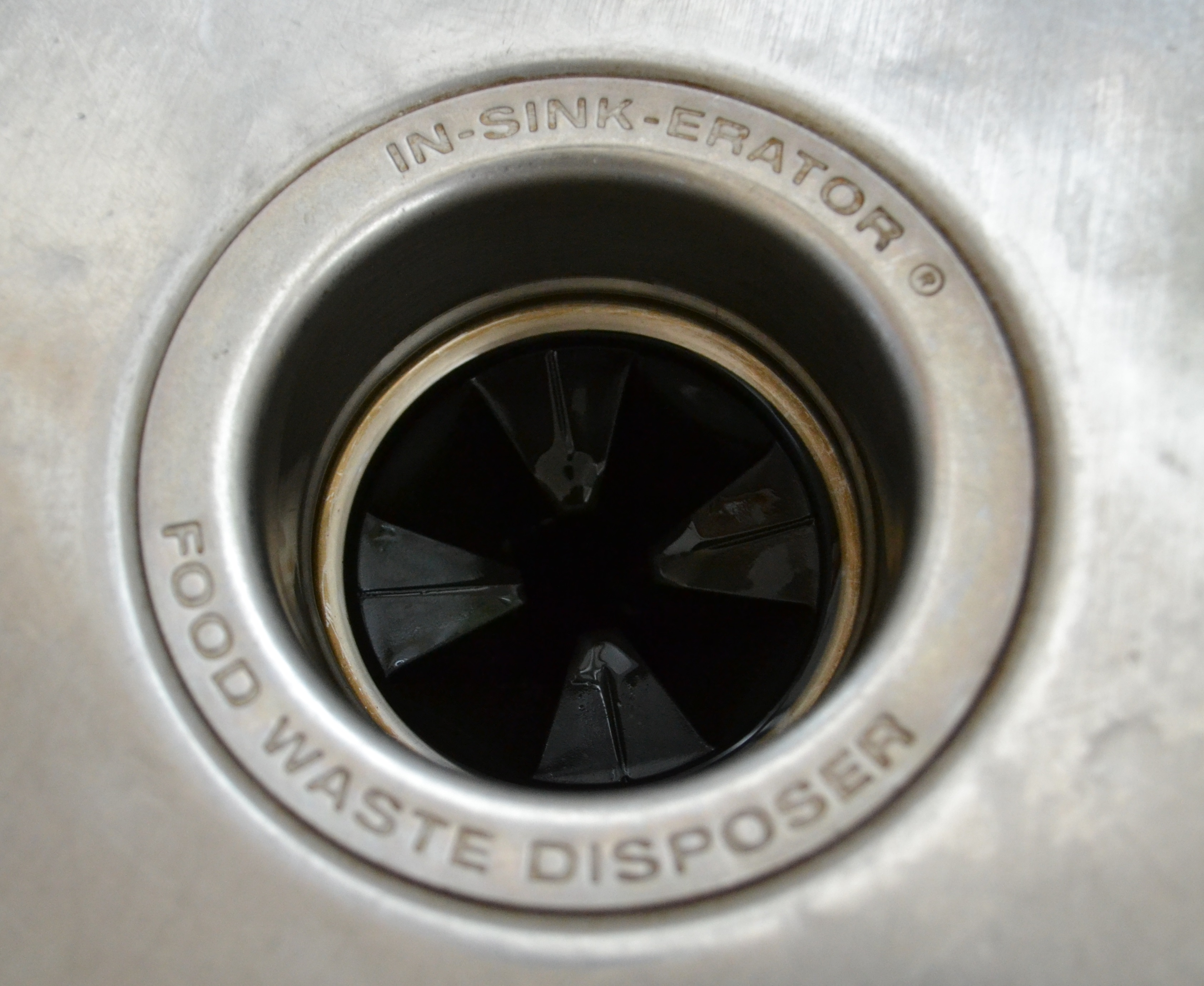 Garbage disposal top view